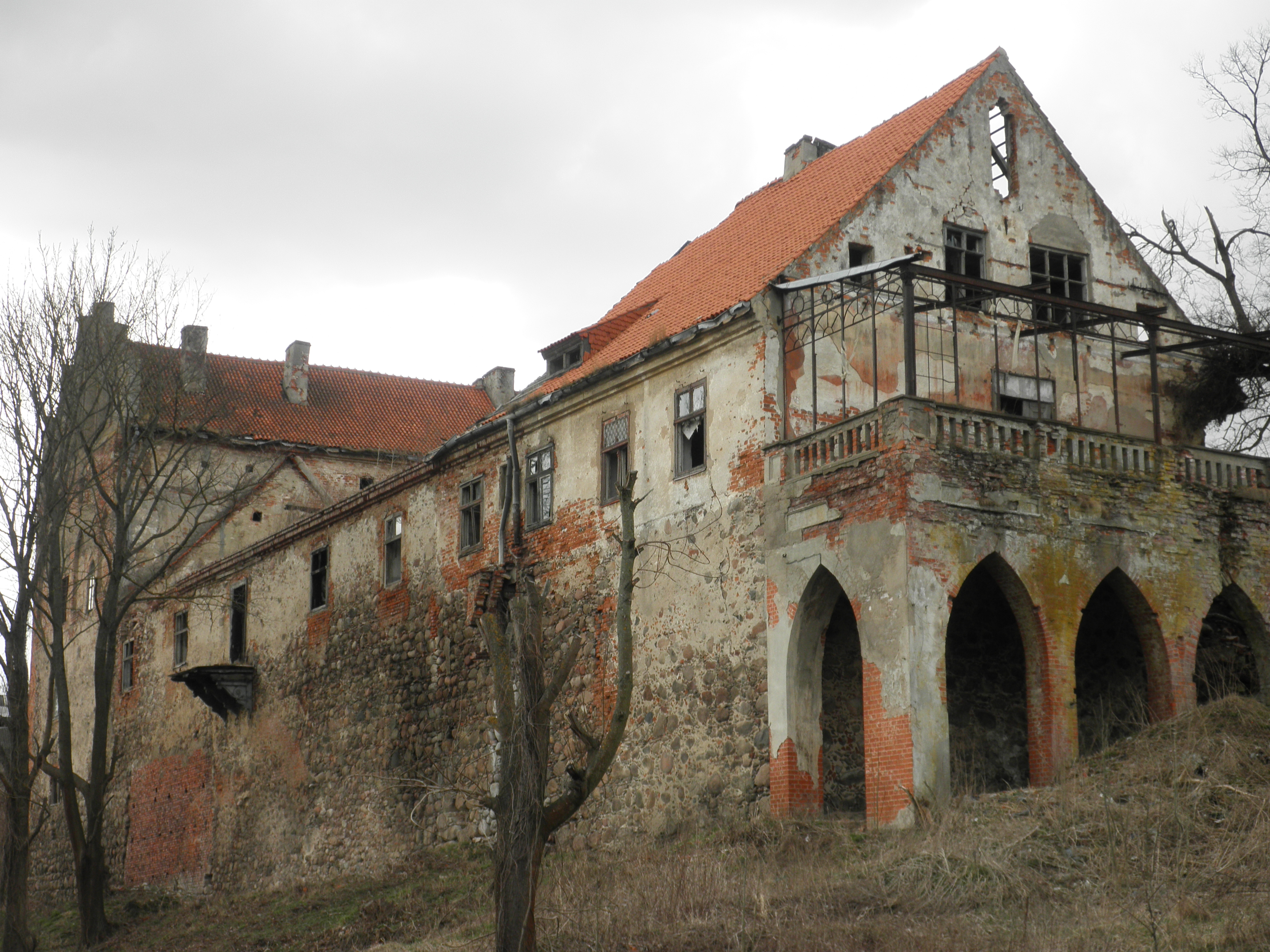 Ruin of the Georgenburg in Majowka in Kaliningrad Oblast